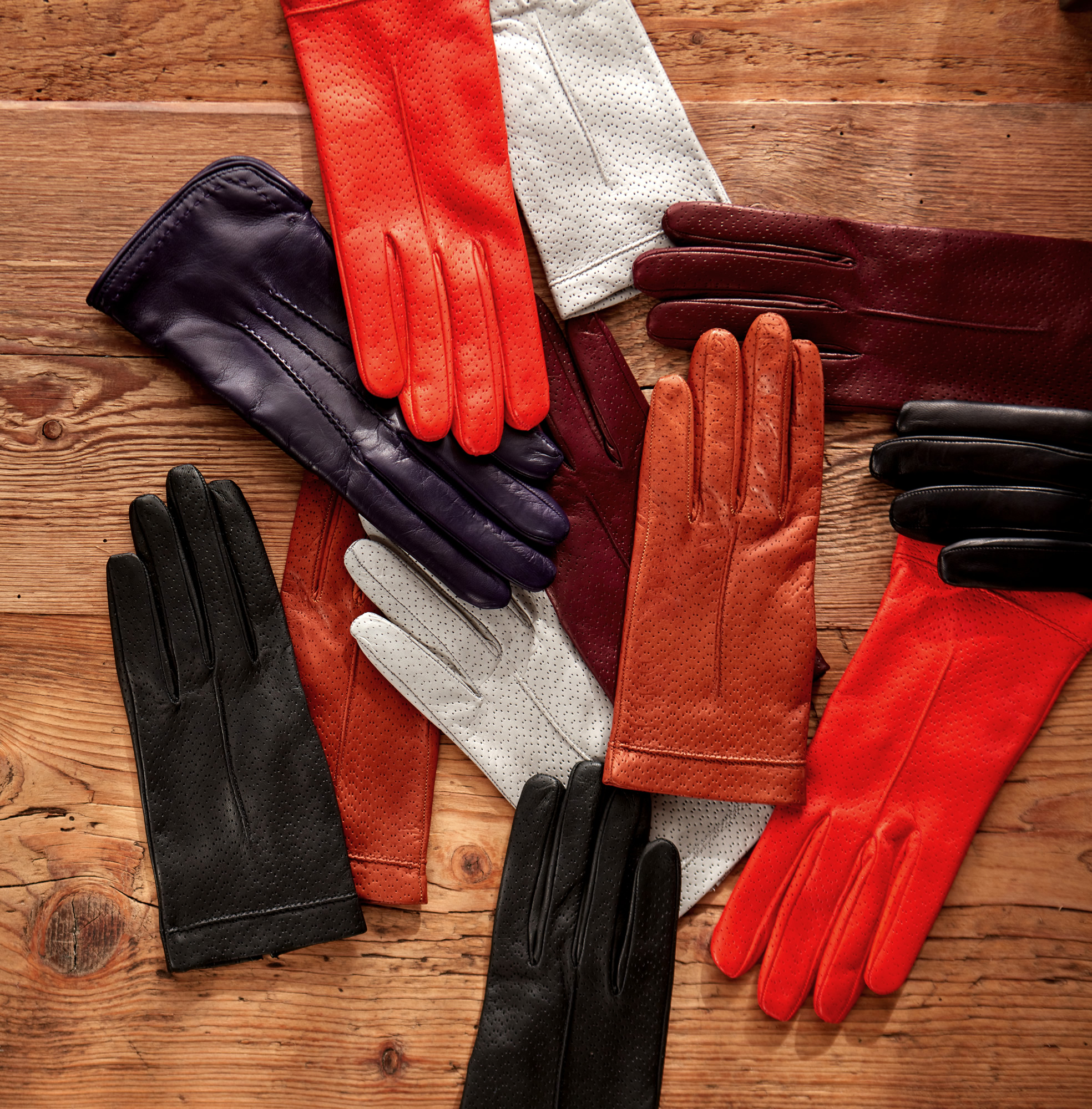 series of leather gloves